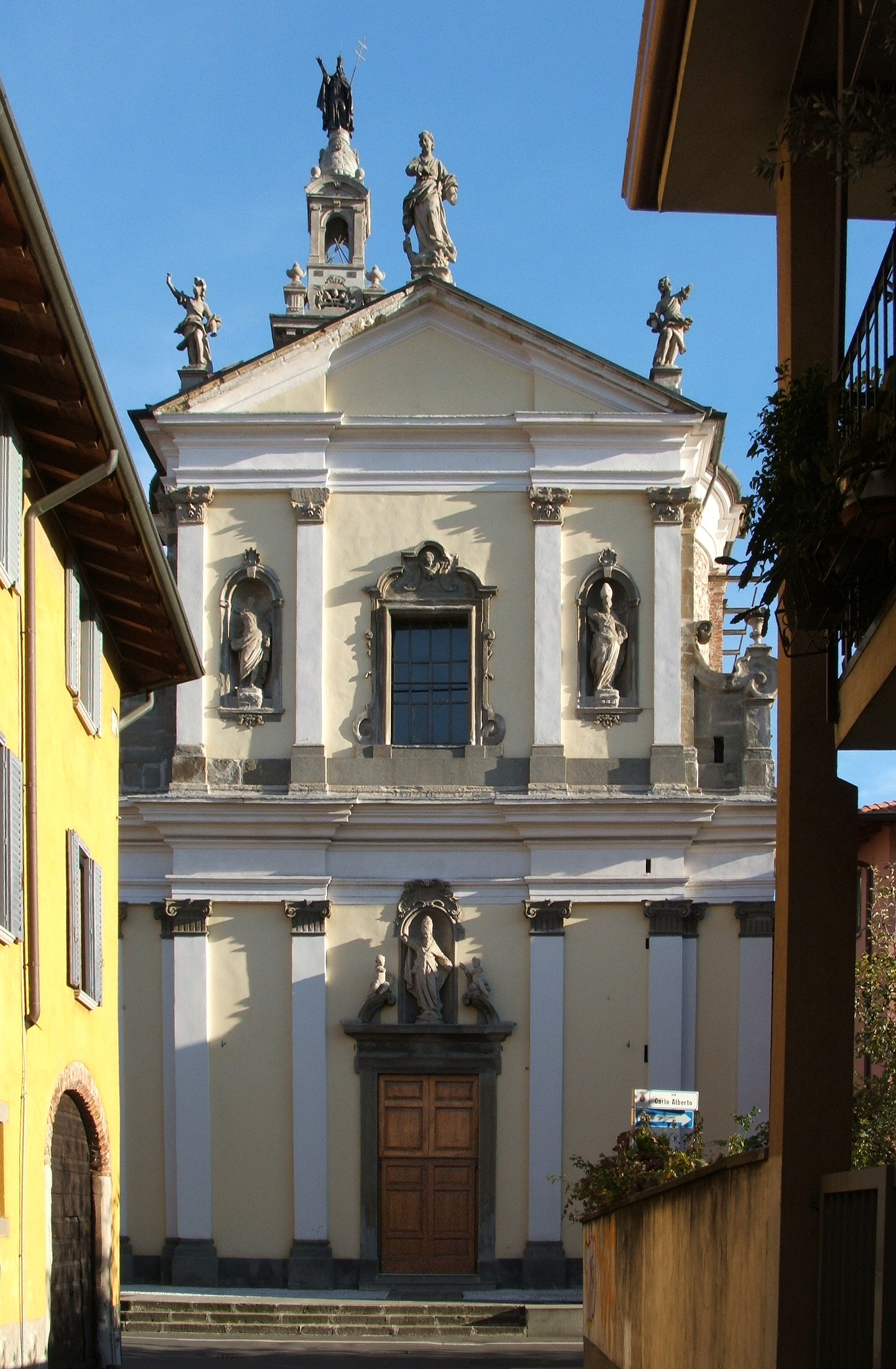 Library of Colognola, Bergamo, Lombardy, Italy. It was the old church of saint Sisto.